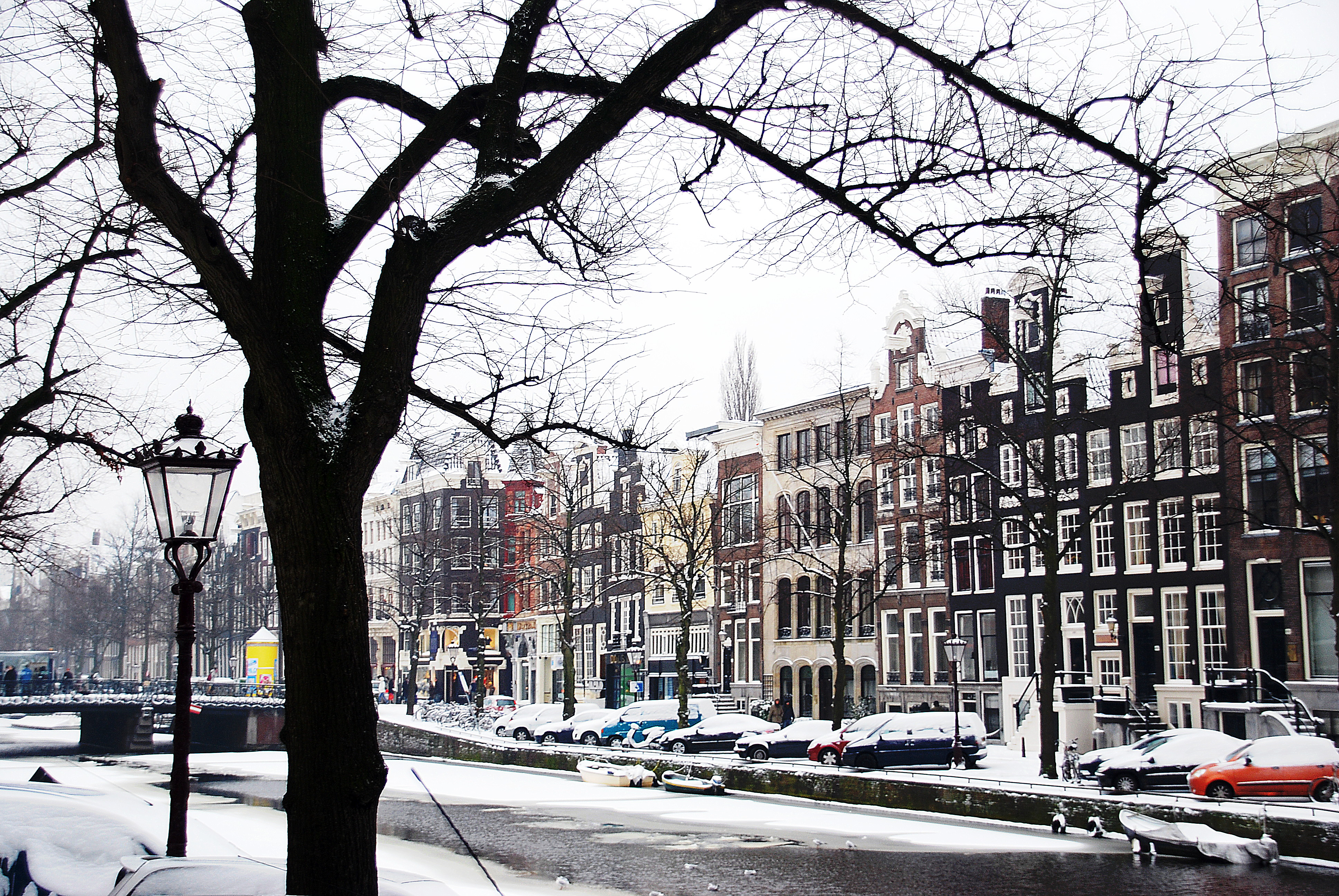 Amsterdam, Netherlands: Herengracht in December. Picture modifiyed in November 2017